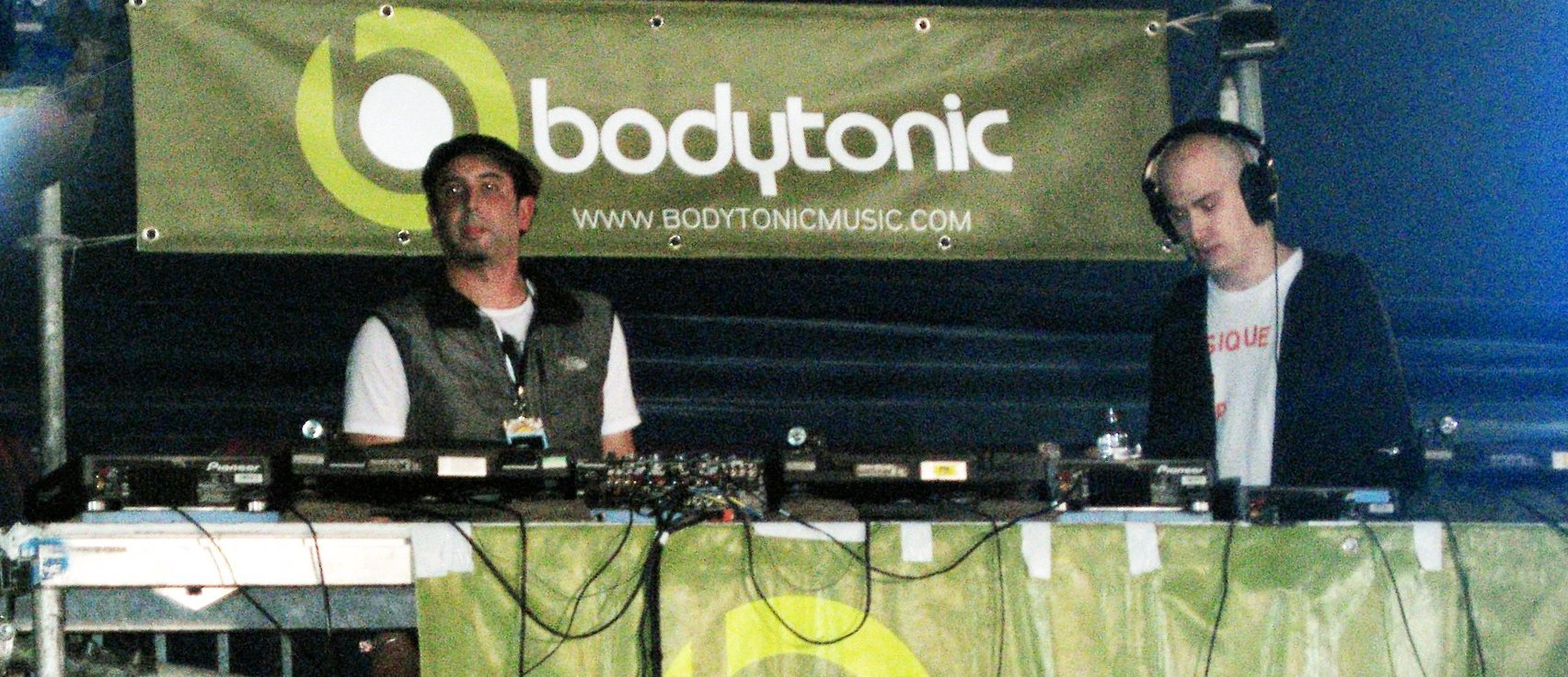 Like Metroarea1.jpg, but rotated, cropped, gradation adjusted, colourbalanced.